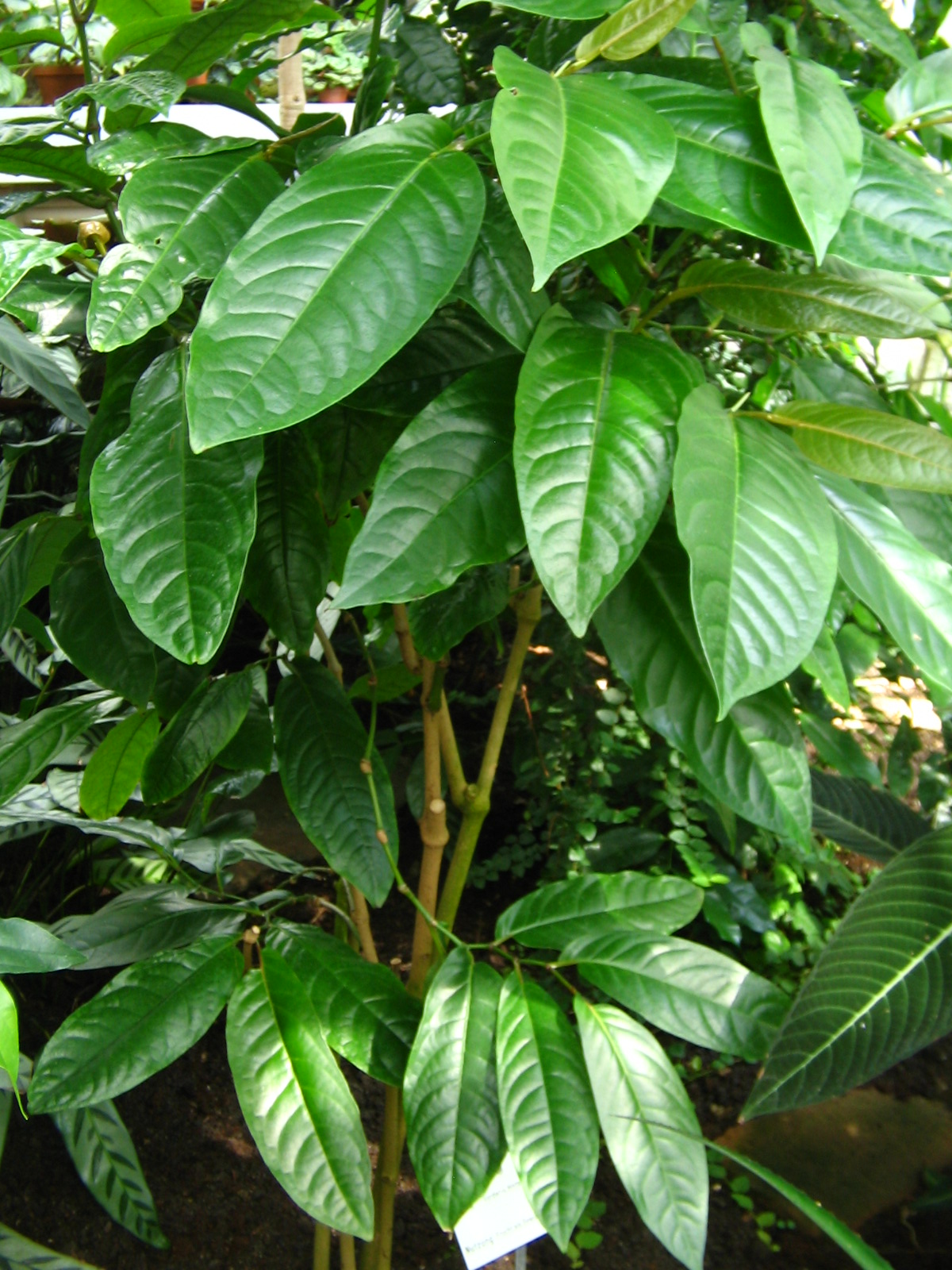 Plant of Piper longum